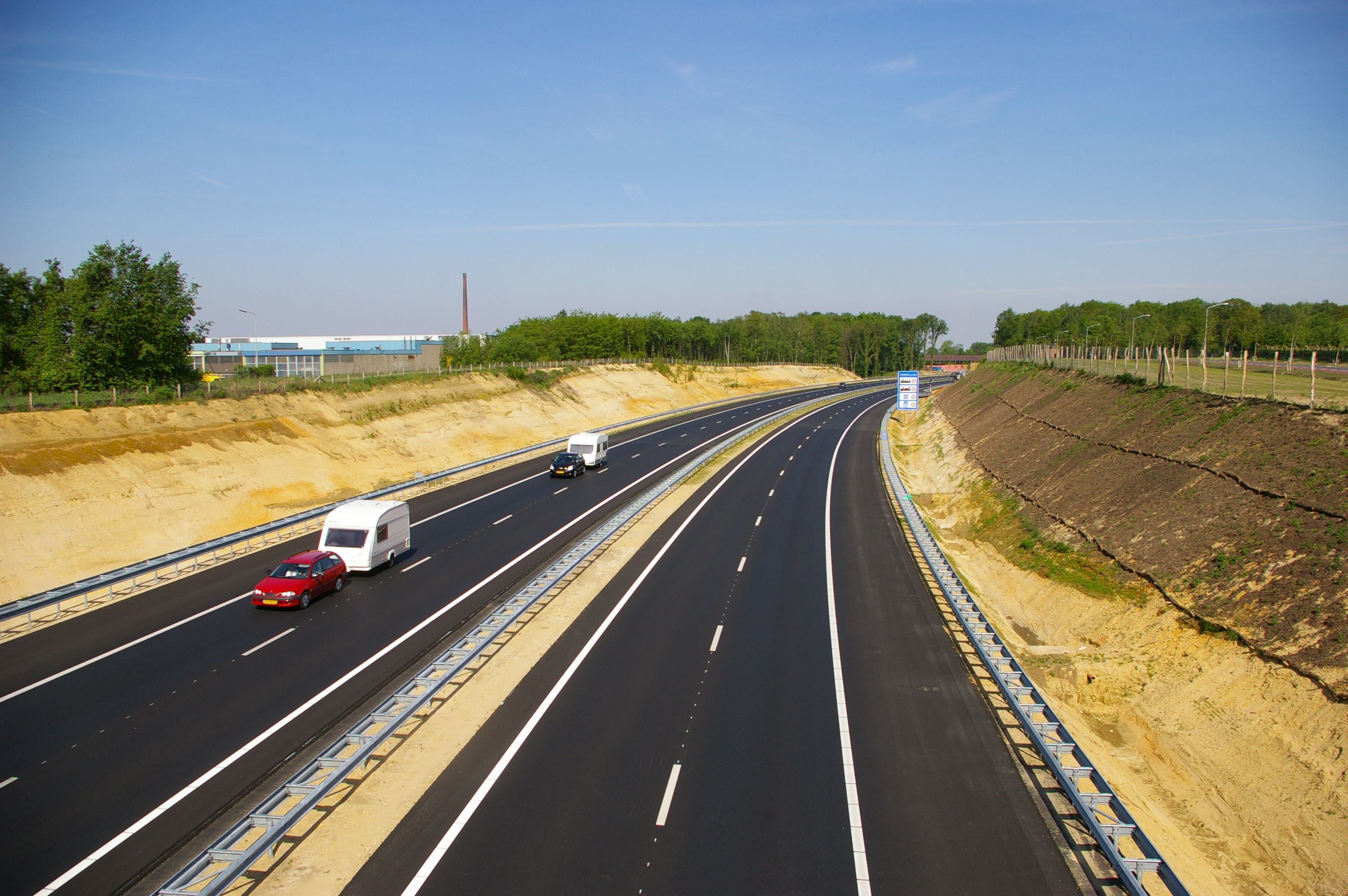 A74 motorway south of Venlo, the Netherlands